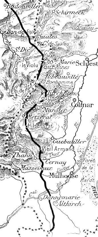 Map of Vosges front, 1915-1918